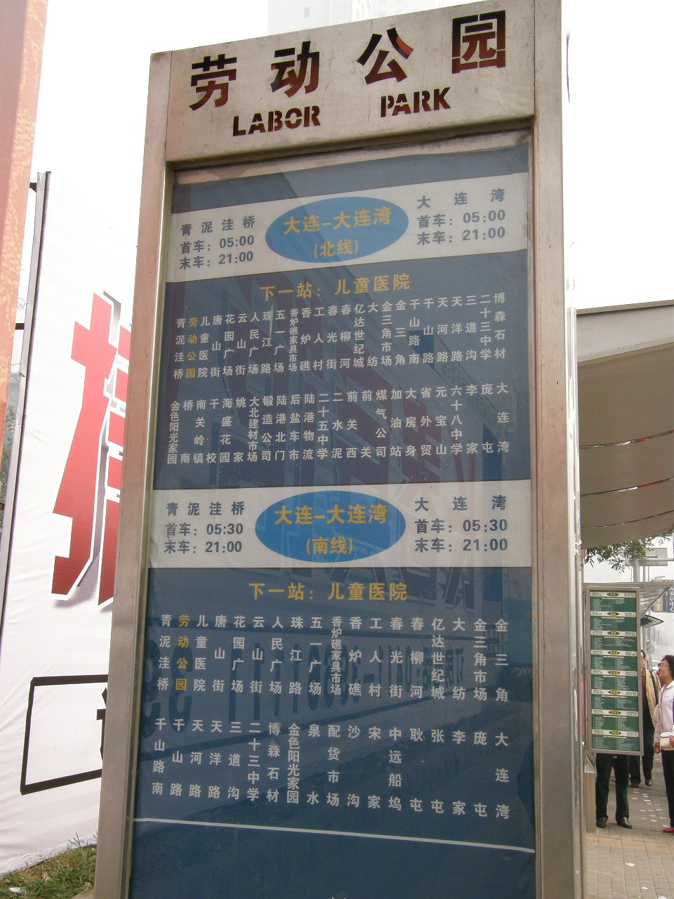 Bus stop in front of Laodong Park in Dalian